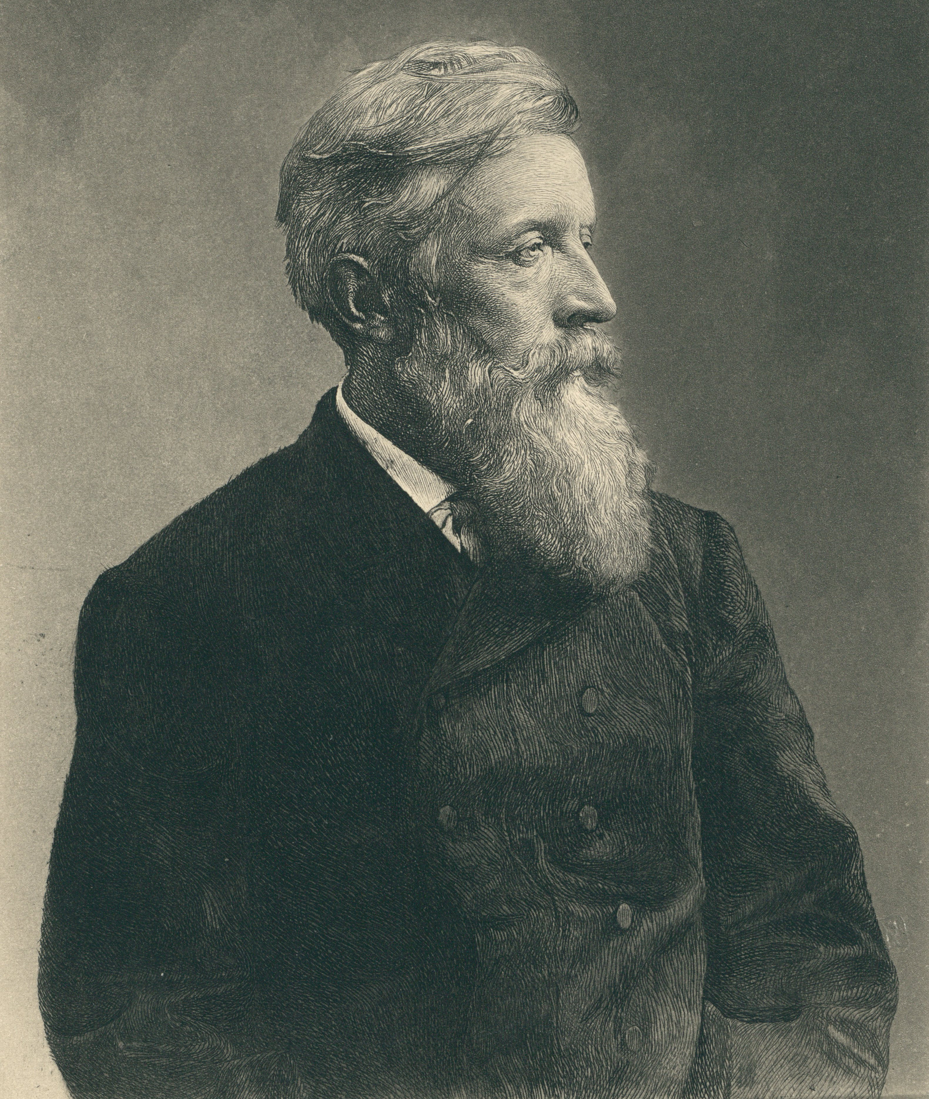 Aleksander Świętochowski, 1900 r.